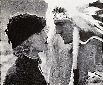 Barbara Weeks e Buck Jones nel film White Eagle